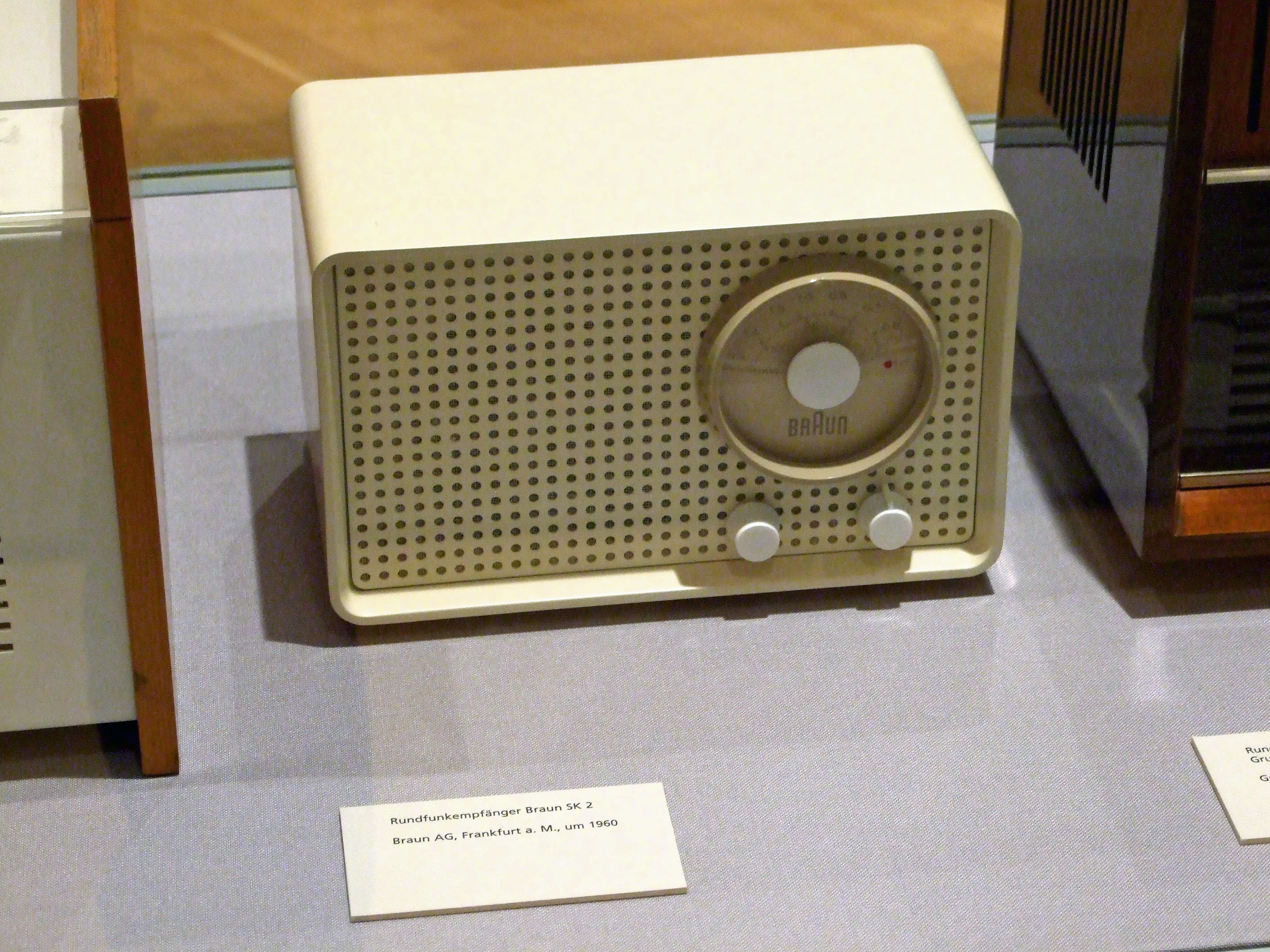 Braun Kleinsuper SK 2 Radio (1960). Externally it's the same as the original Braun Kleinsuper of 1955 [1], and inside they all use a basic five-tube superheterodyne circuit witn an EL84 output tube [2].